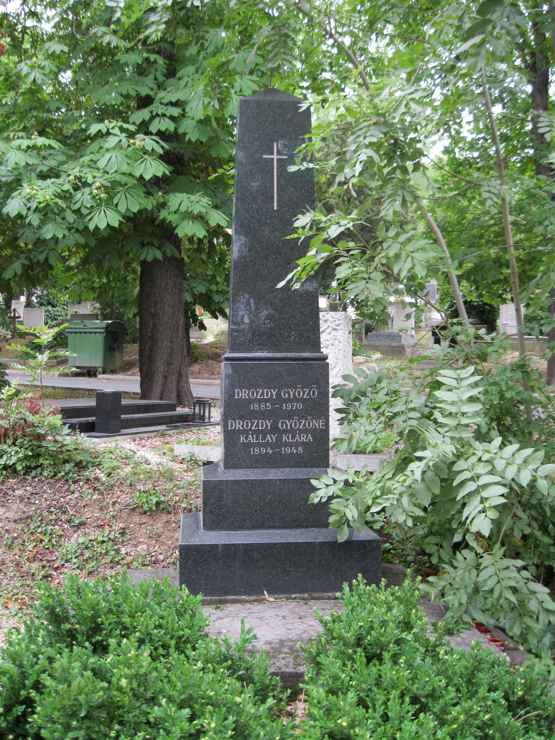 Tomb of Győző Drozdy in Farkasréti Cemetery [19/1-1-83/84]